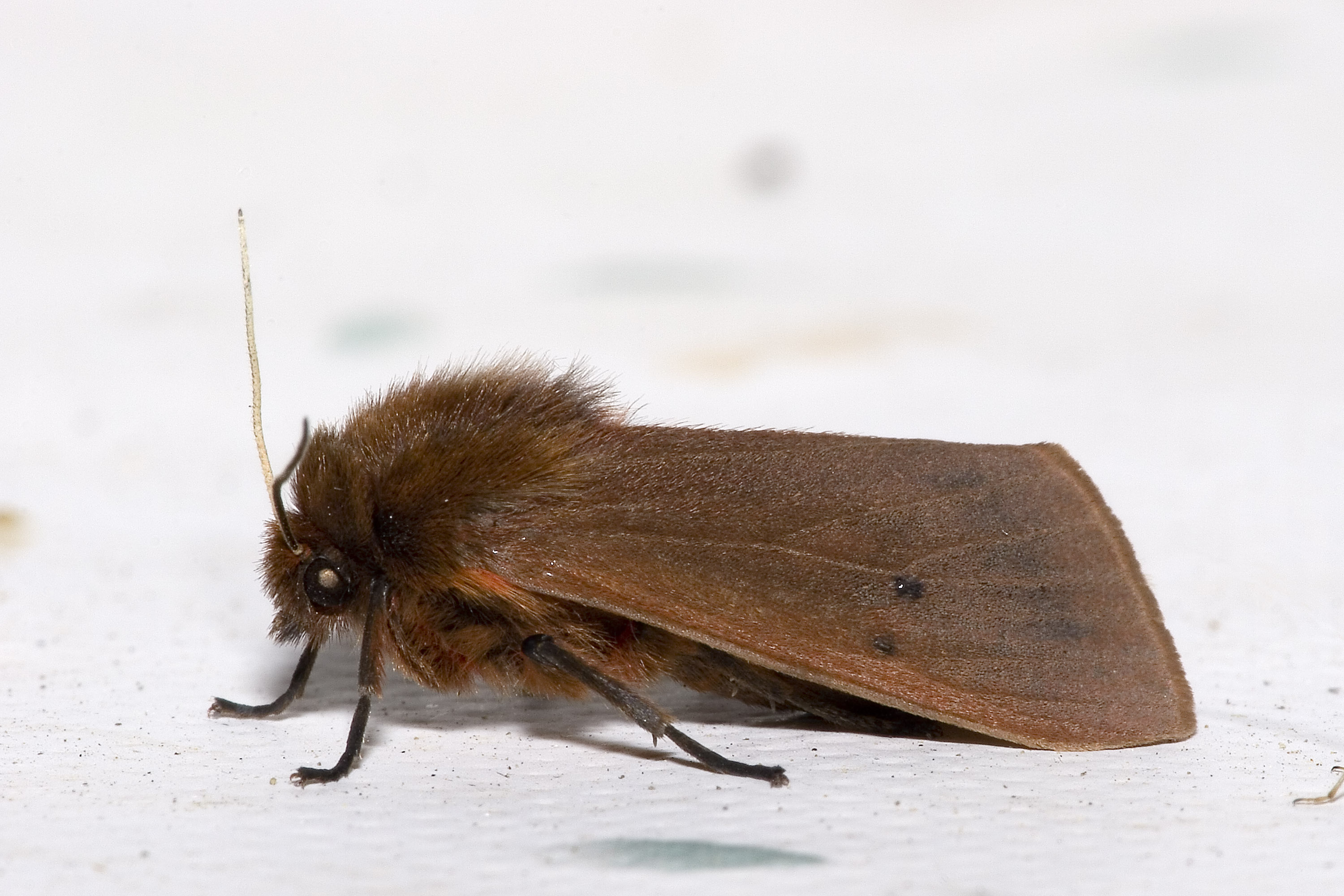 Ruby Tiger